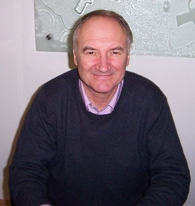 English actor Michael Keating, "Vila" of the Blake's 7 television programme, at the Blake's 7 Series 2 DVD launch.